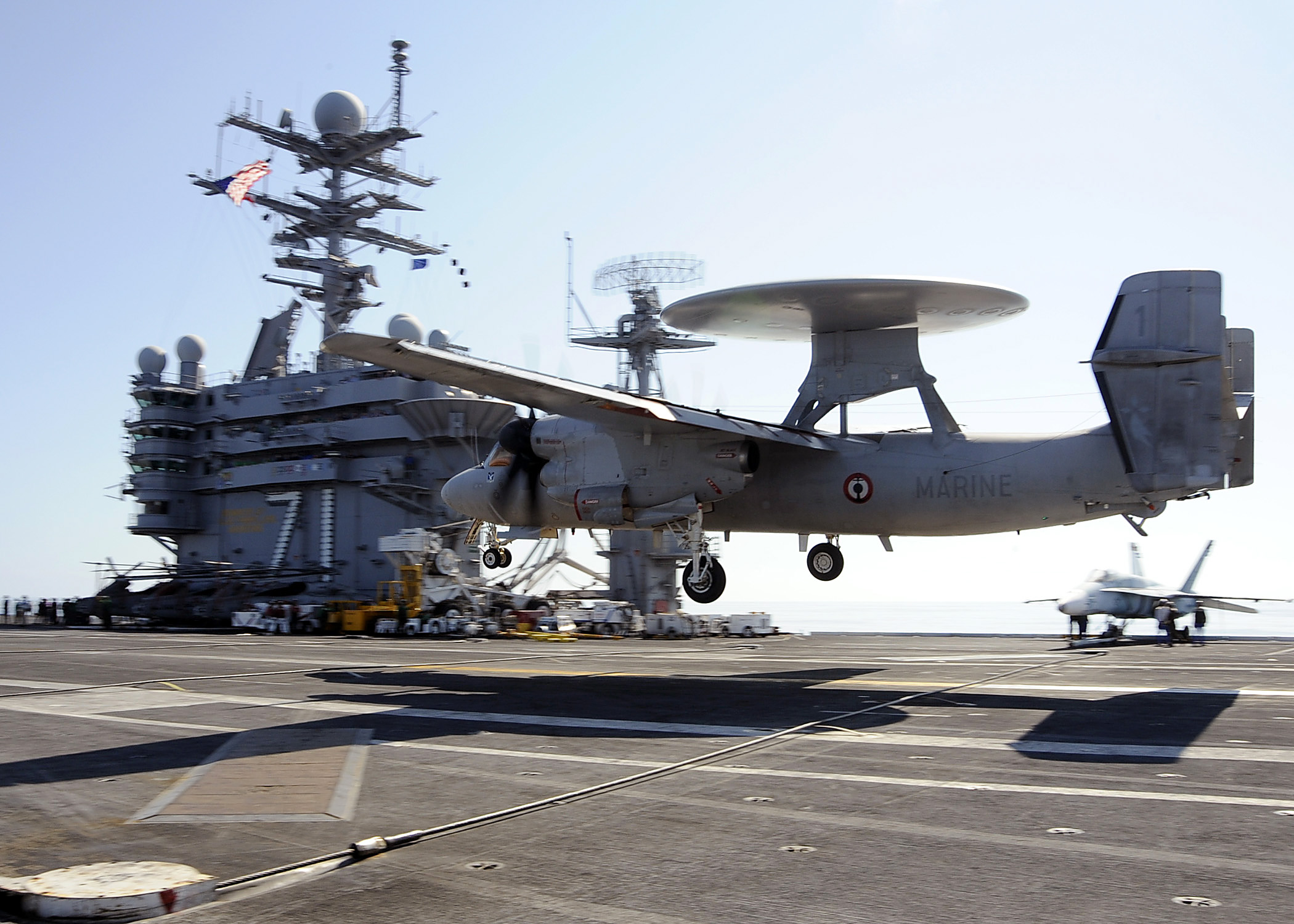 A French E-2C Hawkeye early warning aircraft, assigned to the 4th Squadron, lands during a historic joint French and American collaborated carrier qualification aboard the aircraft carrier USS Theodore Roosevelt (CVN 71). The Theodore Roosevelt Carrier Strike Group is participating in Joint Task Force Exercise "Operation Brimstone" off the Atlantic coast until the end of July